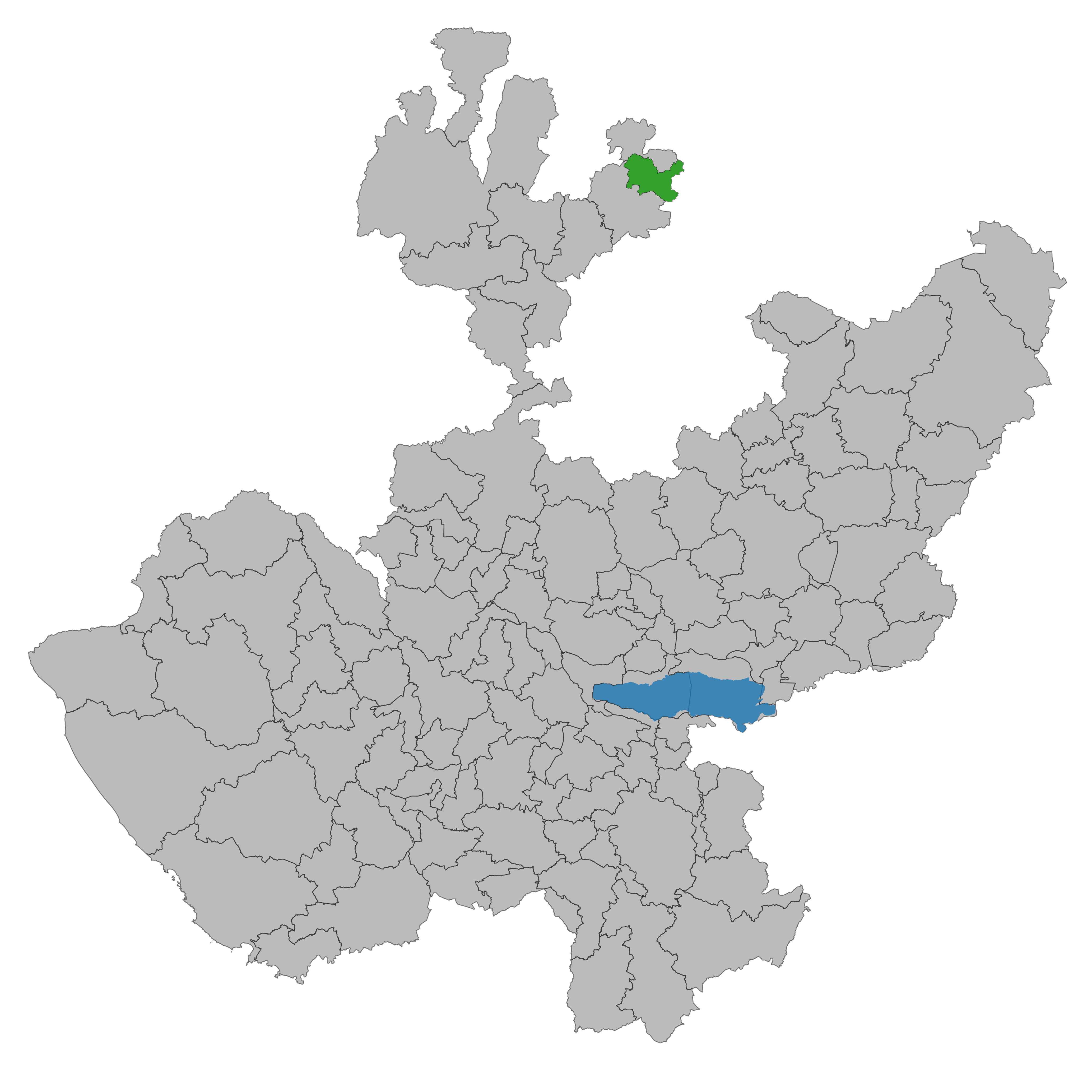 Municipality of Jalisco. Prepared with the software QGIS version 2.8.2 Wien & with information of SCINCE 2010 version 05/2013